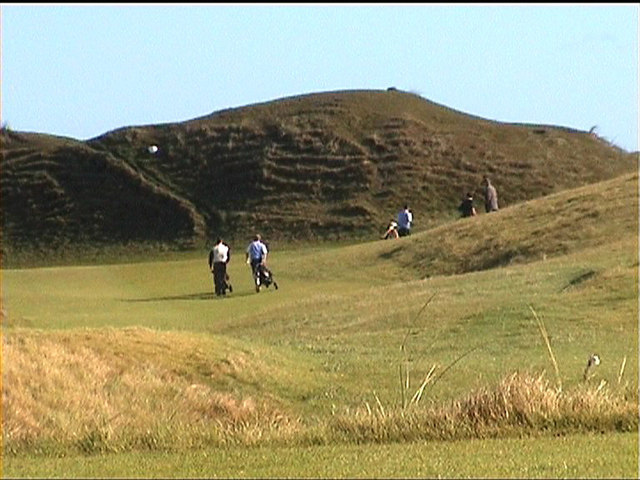 The Klondyke The 4th. fairway at Lahinch Golf Club. This par-5 hole was reputedly designed by "Old Tom" Morris, and has survived various design alterations to the course over the years. The golfer is challenged to place his drive on a narrow fairway set between two sand dunes. The second shot must then be played "blind" over the top of the sand dune shown in this photograph. A white stone marker set in the face of the sand dune gives the golfer the direction to the green.